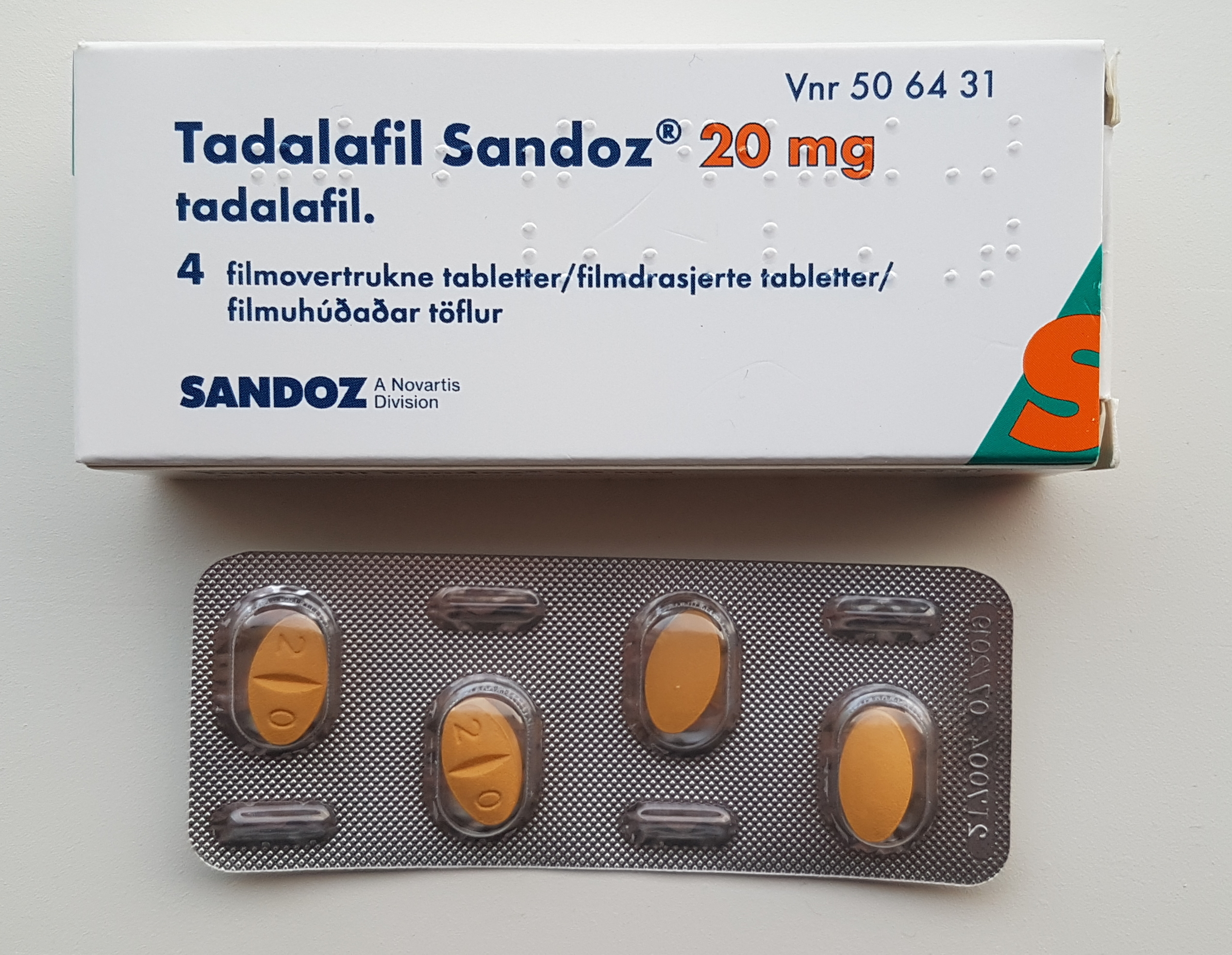 20 mg generic tadalafil by Sandoz